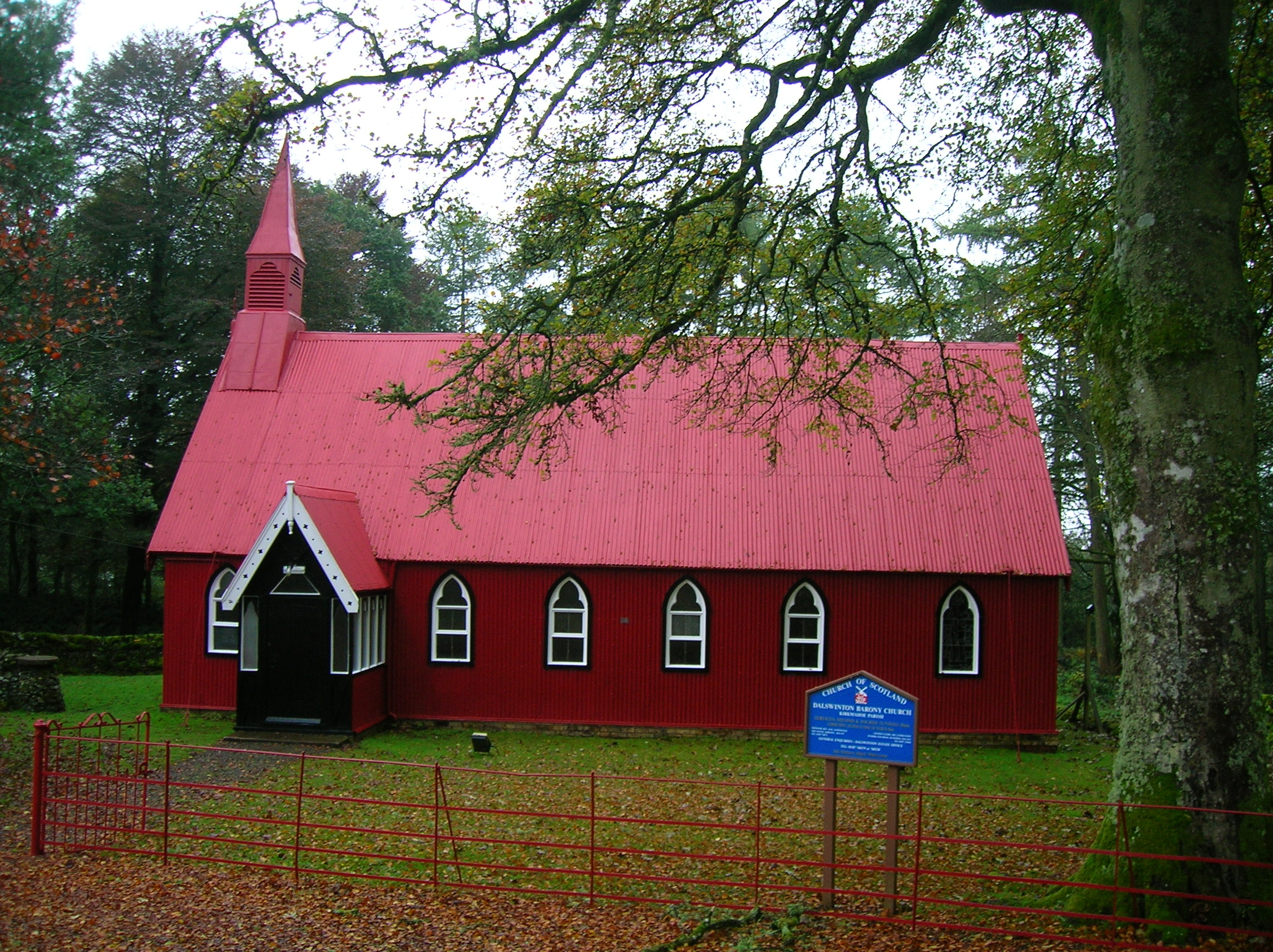 The Liverpool maunfactured corrugated iron Dalswinton Barony Church, Dumfries & Galloway, Scotland.